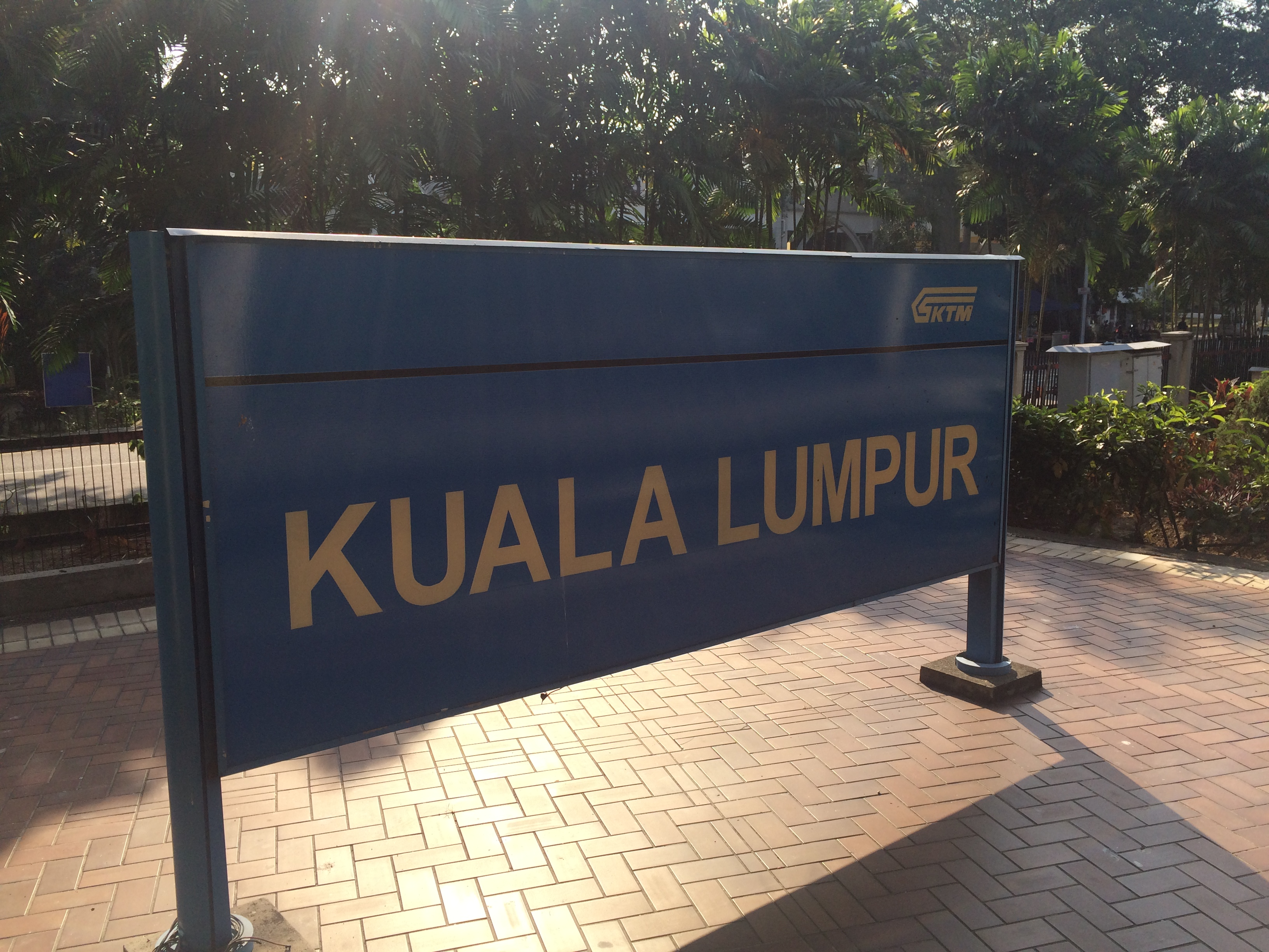 Kuala Lumpur - stationboard